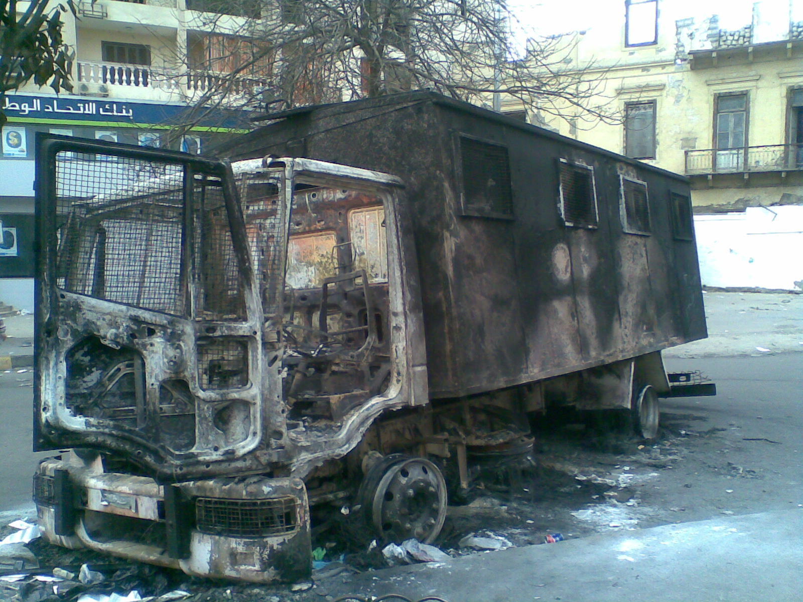 A destroyed central security forces vehicle in downtown Cairo, It was burned during the 2011 Egyptian Revolution.